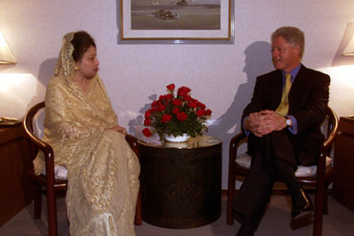 Meeting between former Prime Minister of Bangladesh Begum Khaleda Zia and US President Bill Clinton in Dhaka, Bangladesh.